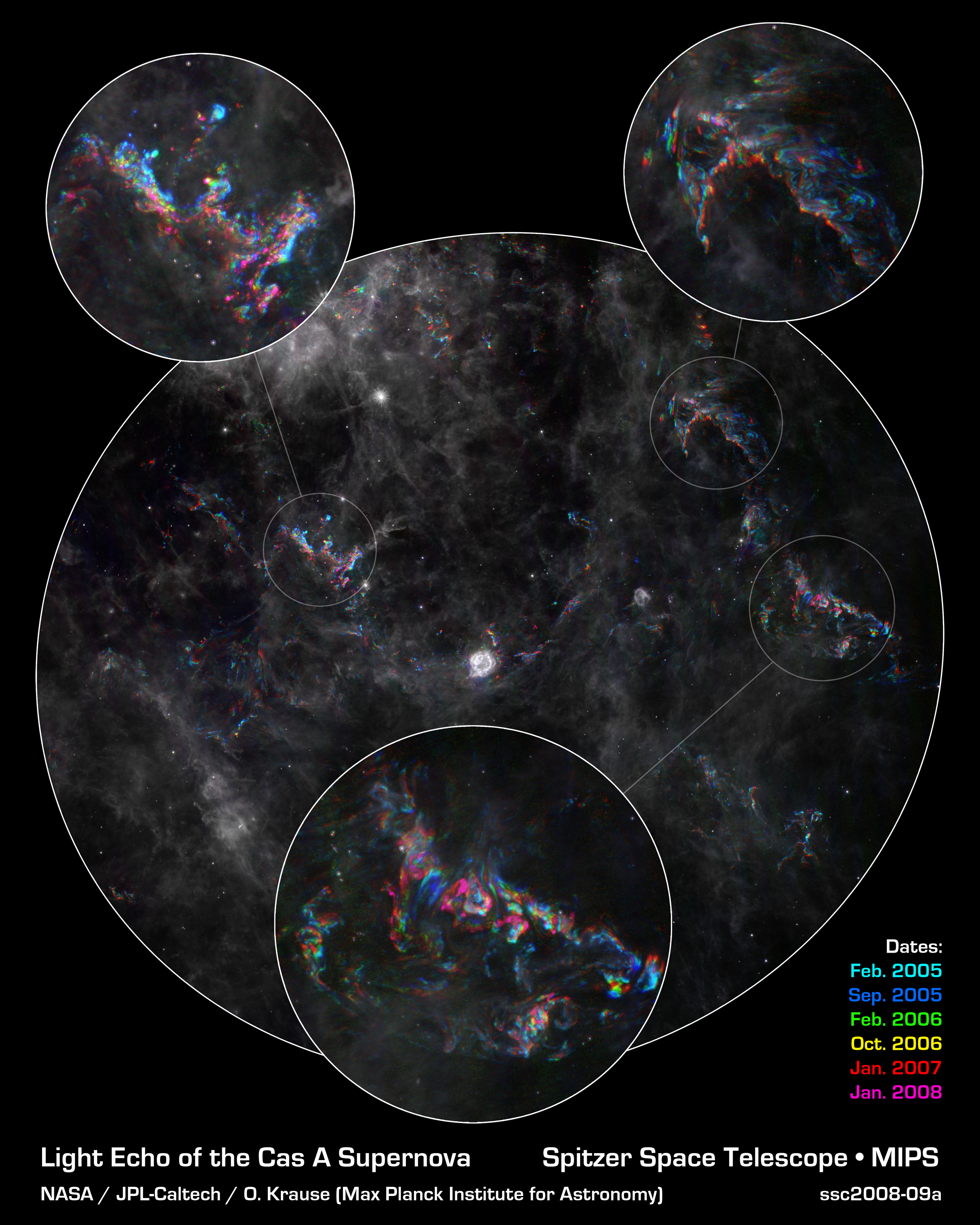 This image from NASA's Spitzer Space Telescope highlights dramatic changes in phenomena referred to as light echoes (colored areas) around the Cassiopeia A supernova remnant (center). Cassiopeia A is the remnant of a once massive star that died in a violent supernova explosion. It consists of a dead star, called a neutron star, and a surrounding shell of material that was blasted off as the star died. A light echo is created when a star explodes or erupts, flashing light into surrounding clumps of dust. As the light zips through the dust clumps, it heats them up, causing them to glow successively in infrared, like a chain of Christmas bulbs lighting up one by one. The result is an optical illusion, in which the dust appears to be flying outward at the speed of light. This apparent motion can be seen here by the shift in colored dust clumps. The main underlying image is a composite from Spitzer showing Cassiopeia A and surrounding interstellar clouds of dust. It consists of six images taken over a time span of three years, each represented in a different color, as noted by the key at the bottom of the image. Dust features that have not changed over time appear gray, while those that have changed are colored blue or orange. Bluer colors represent an earlier time and redder ones, a later time. Certain areas of the light echo are displayed in more detail to show the turbulent patterns formed as the light echo illuminates different areas of gas and dust over time. The supernova remnant is located 11,000 light-years away in the northern constellation Cassiopeia. The light echo is the largest ever seen, stretching more than 300 light-years away from Cassiopeia A. If viewed from Earth, the entire frame would take up the same amount of space as seven full moons.